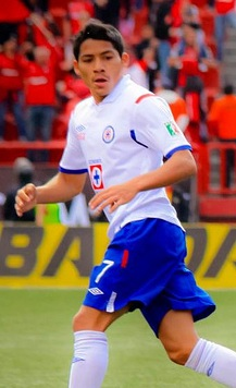 Cruz Azul player Javier Aquino